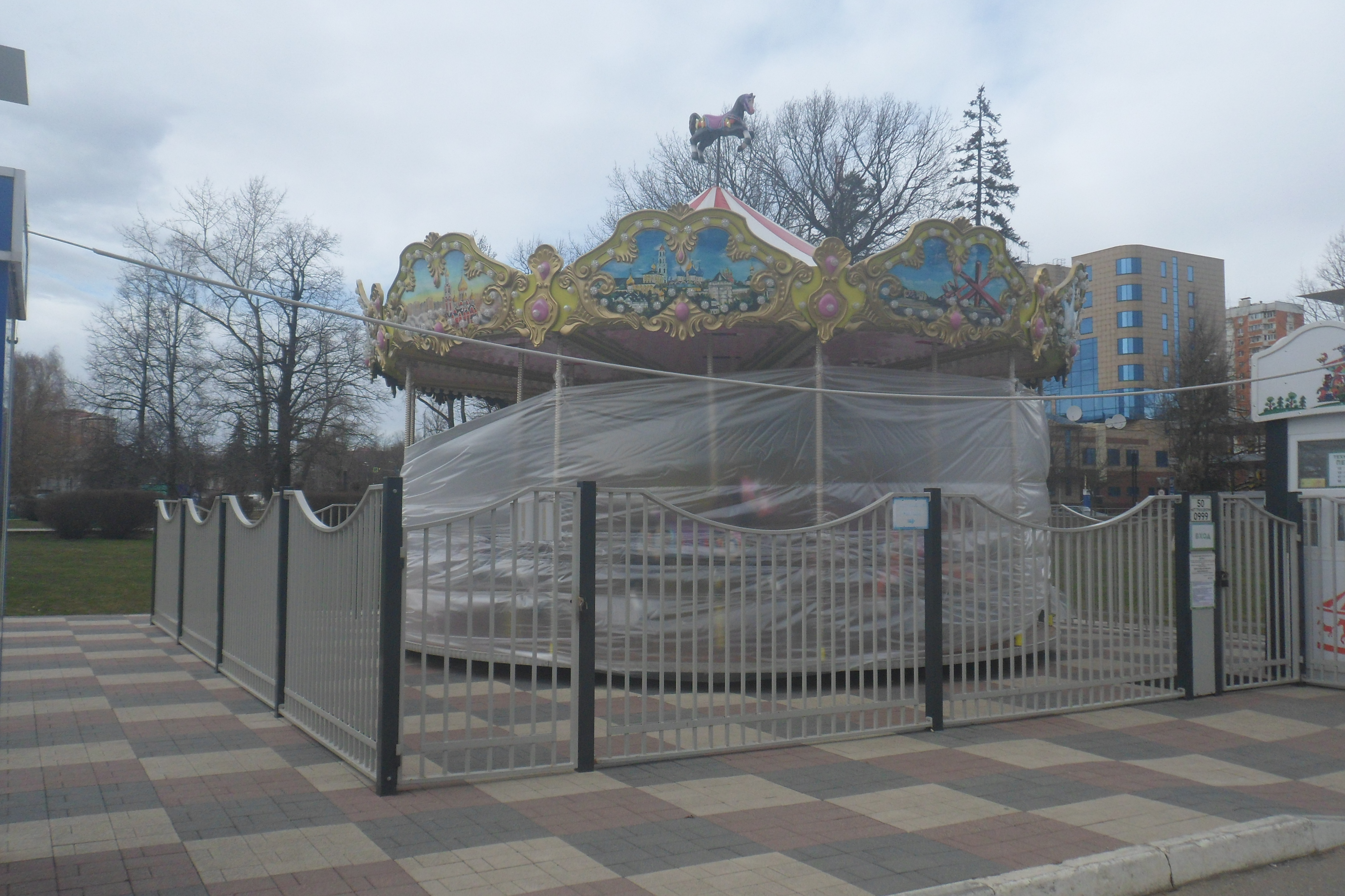 Cloused carousel in the centre of Odincovo, Moscow region. COVID-19. 5th of aprel 2020.